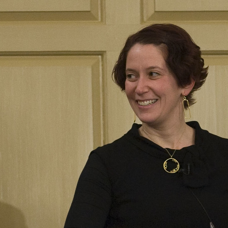 Dara Strolovitch is Associate Professor of Political Science at the University of Minnesota. Her research and teaching focus on interest groups and social movements, political representation, the causes and consequences of American political inequalities, and the politics of race, class, gender, and sexuality. She is the author of Affirmative Advocacy: Race, Class, and Gender in Interest Group Politics (2007), which was awarded the American Political Science Association’s 2008 Gladys M. Kammerer Award for the best book in the field of U.S. national policy; the Leon D. Epstein Outstanding Book Award from the Political Organizations and Parties section of the American Political Science Association; the 2008 Distinguished Contribution to Scholarship Book Award from the American Sociological Association's section on Race, Gender, and Class; and the 2008 Virginia Hodgkinson Research Prize awarded by ARNOVA and Independent Sector for the best book on philanthropy and the nonprofit sector that informs policy and practice. Hosted March 25, 2011. Miller Center, Charlottesville VA. For more information, visit